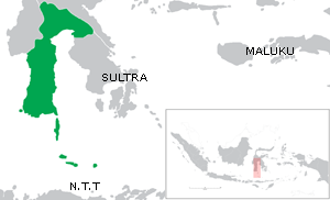 Location of South Sulawesi province, Indonesia